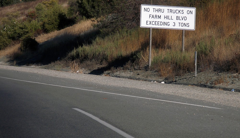 An example of the break in the paint line marking the hard shoulder that is used on freeways in foggy parts of California to warn motorists of an upcoming exit. This particular example is on Interstate 280 northbound near the Farm Hill Boulevard exit in Redwood City.